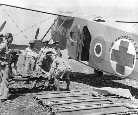 Original caption: "A PATIENT BEING LOADED INTO AN AIRCRAFT OF NO 1 AIR AMBULANCE UNIT IN SICILY, 1943-09."